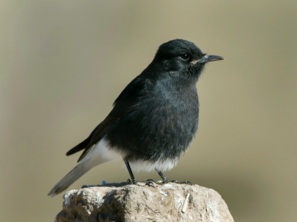 Black Wheatear - Merzouga_Marocco 07_3429